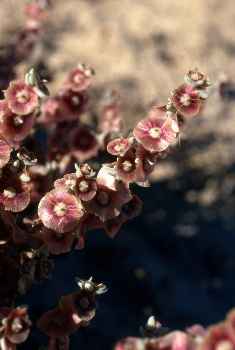 Salsola crassa subsp. turcomanica (Litv.) Freitag = Climacoptera turcomanica (Litv.) Botsch. - Pakistan, Baluchistan, Kalat, between Nushki and Quetta, ca. 1500-1600 m.